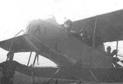 Karel Doorman (1889-1942) as a naval aviator of a Farman F22 MA1.